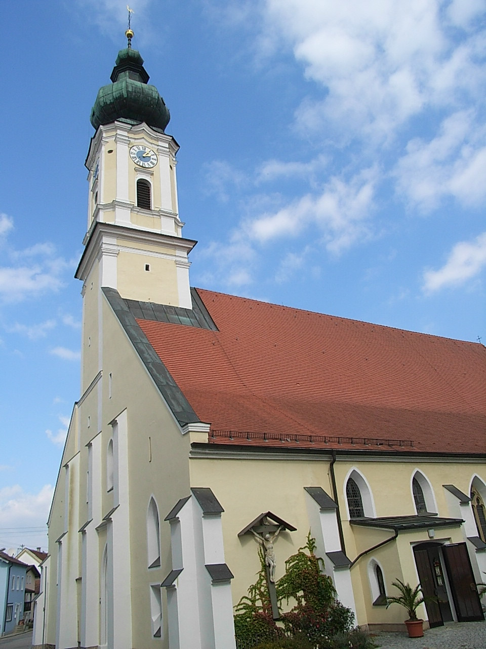 Rotthalmünster, bell tower and western parts of the Parish Church of the Assumption, seen from south-west.